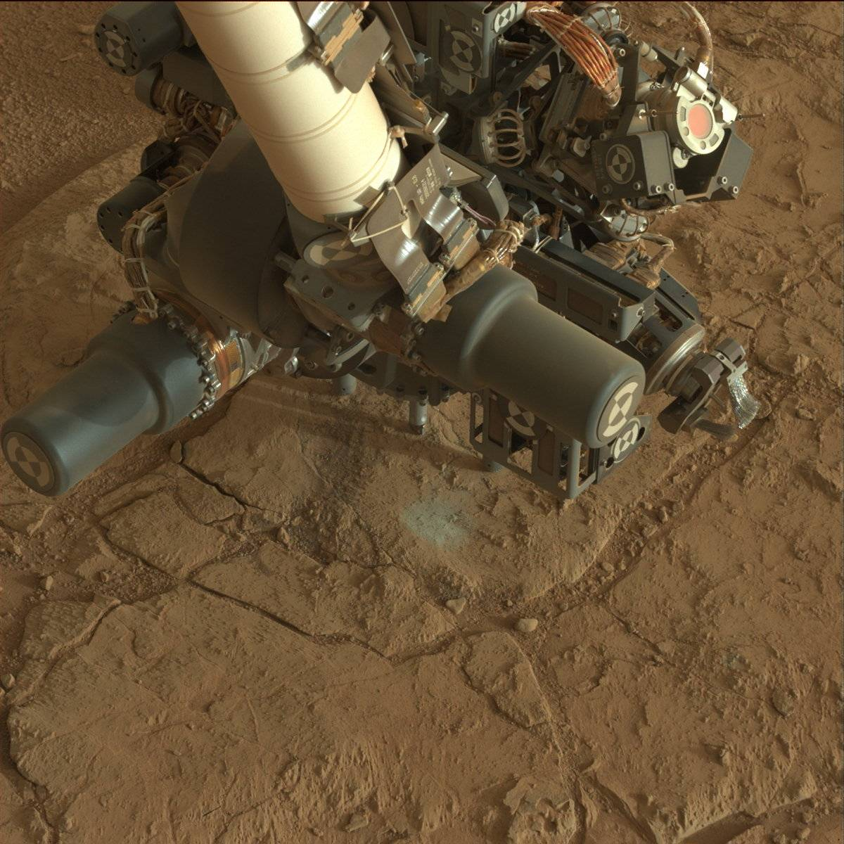 Close-up view of the Mars Science Laboratory Curosity's drill in place on the Martian bedrock. Taken by Curosity's left Mastcam on Sol 174.